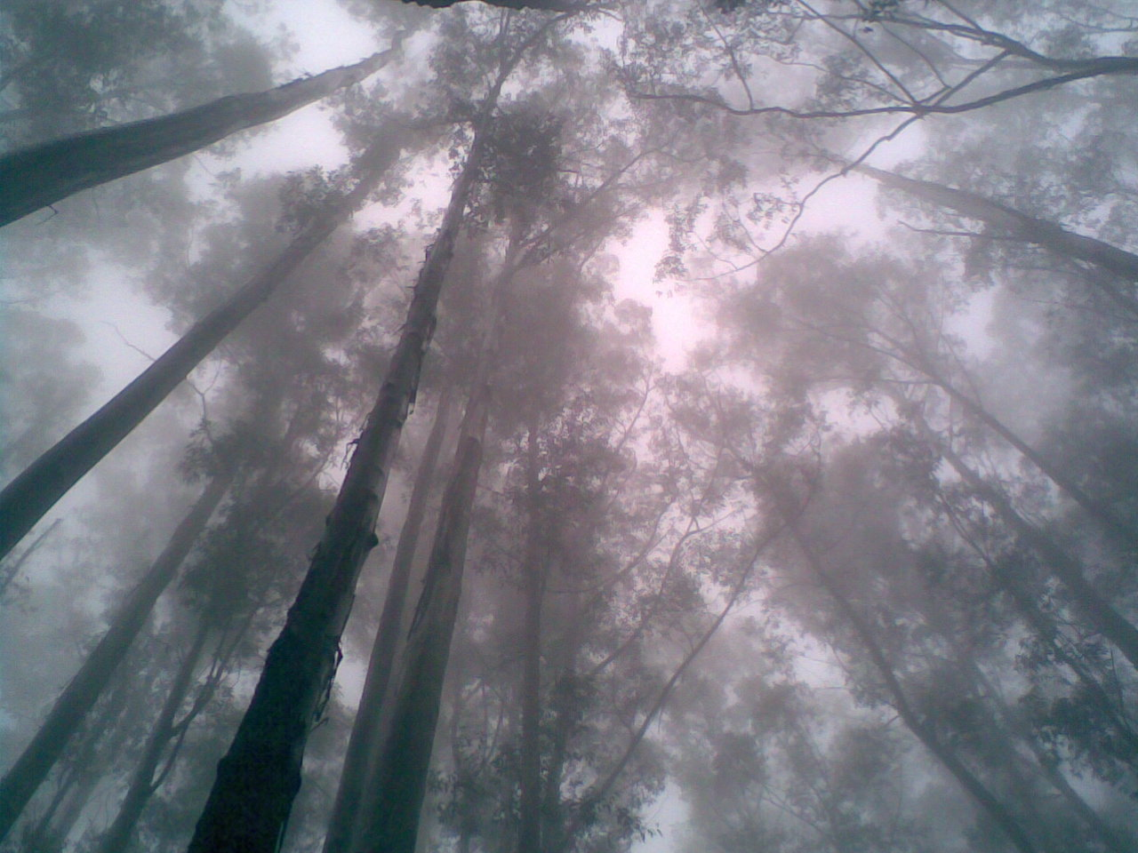 This is the photo of the forest in Ooty (Hill station in Tamilnadu, India). This image has been captured when the author Pankaj Dhande when he went for a trip with his friends.